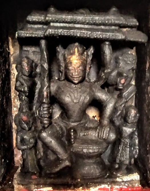 Depiction of Gajapati Prataprudra Deva from Sarpeswar temple built during his rule at Balarampur village near Kakhadi between Choudwar to Mundali